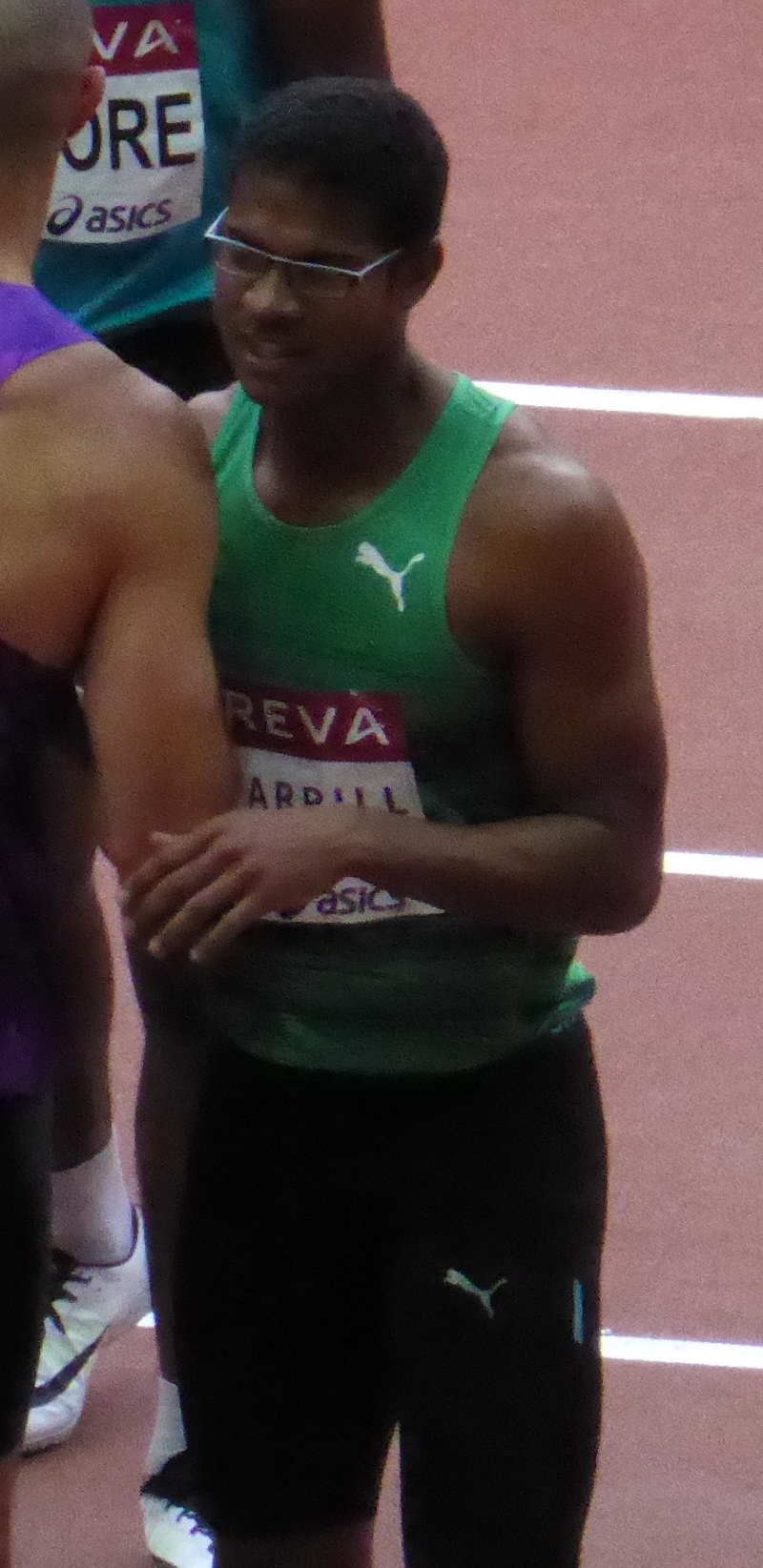 2015 Meeting Areva, Stade de France, Paris.